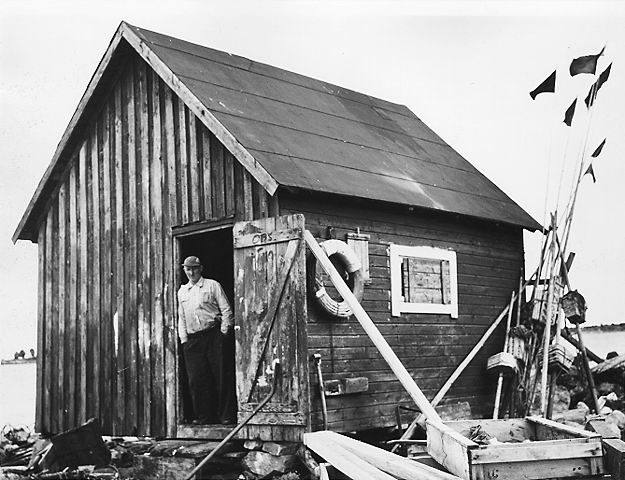 Gustav Olsson at his boathouse, Gyön, Sweden. Photo: Nils J. Nilsson, 1956.